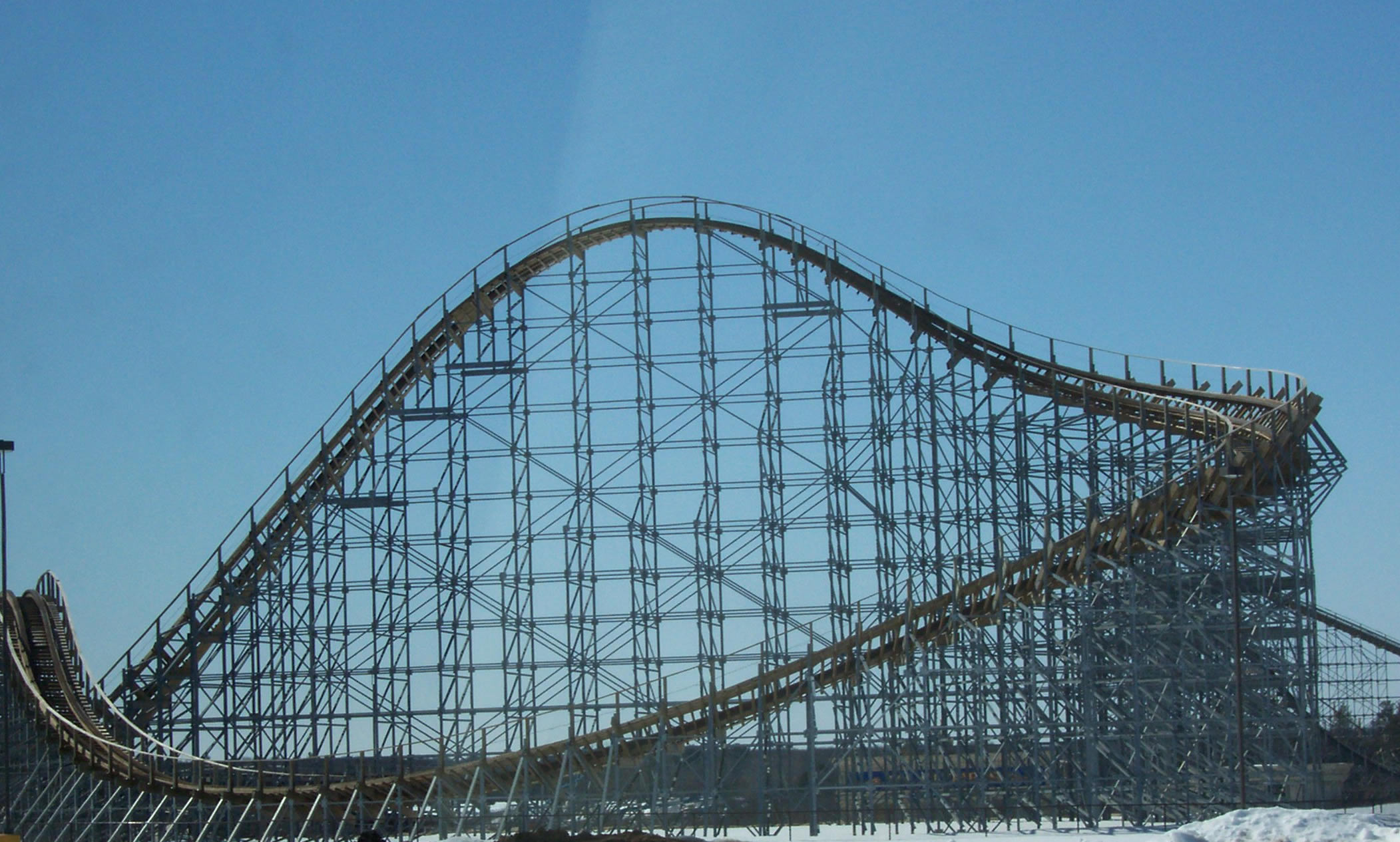 The Hades (roller coaster), a rollercoaster at Mt. Olympus Water & Theme Park in Wisconsin Dells, Wisconsin, USA. Taken March 11, 2007 by myself.